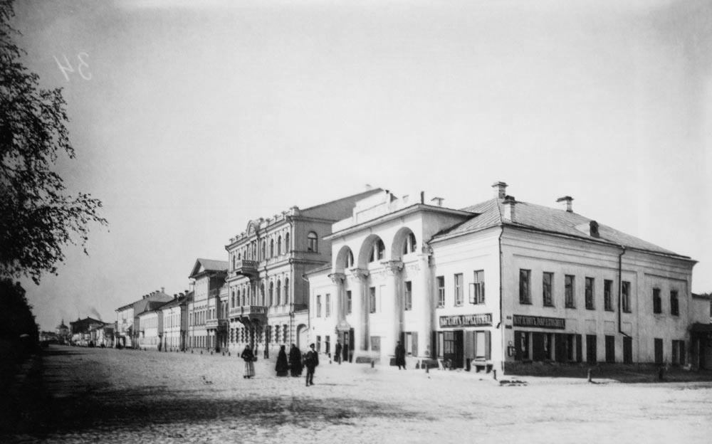 Yaroslavl. Angle Streletsky and Romanovsky streets (now the streets Ushinskogo and Nekrasova)